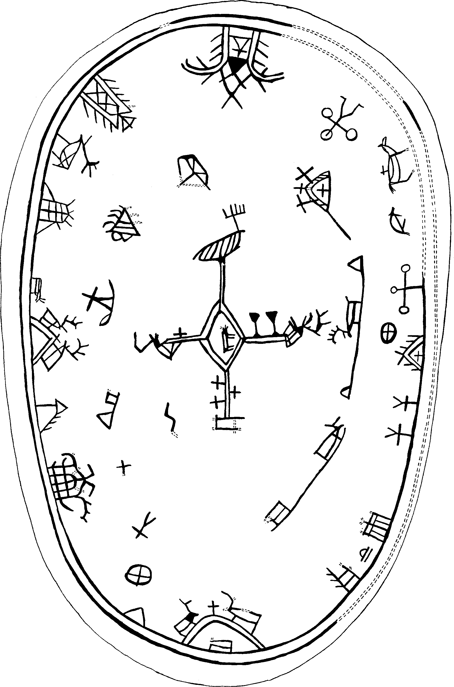 Sami drum, from Åsele Lappmark. Frame drum. 48 x 31 cm. No 25 in Ernst Manker's Die lappische Zaubertrommel (1938/1950). Confiscated by the bishop of Härnosand Petrus Asp during his visitation in Åsele new years day, january 1725. A total of 26 drums were confiscated that day and given to the Antiquitätsarchiv in Stockholm. According to writings on drum owned by Tomas Larsson från Selk. Now owned by SHM (SHM 360.14); kept at Nordiska Museet, Stockholm